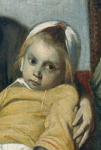 The pale, sick child hangs limply in the woman's lap. Beside them on the cupboard stands a stoneware bowl with spoon. On the wall behind hang a maps which has been rolled open, and a framed print showing the Crucifixion of Christ.